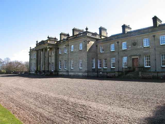 Manderston House Edwardian country house, home of Lord and Lady Palmer. The 'downstairs'have been preserved to give an idea of life in such a house in the 1900s. It has a staircase which is a replica of the Petite Trianon at Versailles, an dis plated in silver.